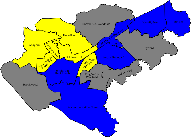 A map of the results of the 2010 Woking Council election. Colour legend by wards won: Liberal Democrats Conservative party Wards in grey were not contested in 2010.